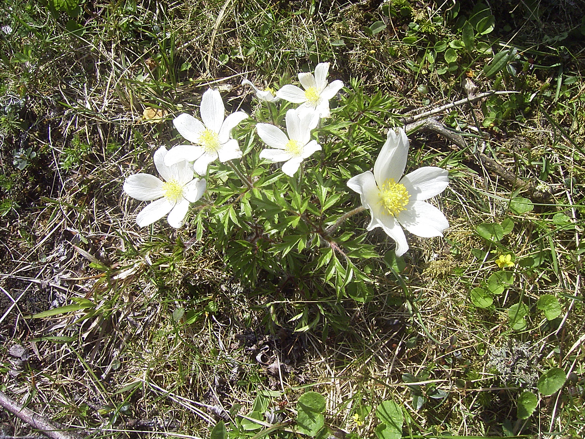 Pulsatilla alpina subsp. schneebergensis at the Rax, Austria, June 2006.